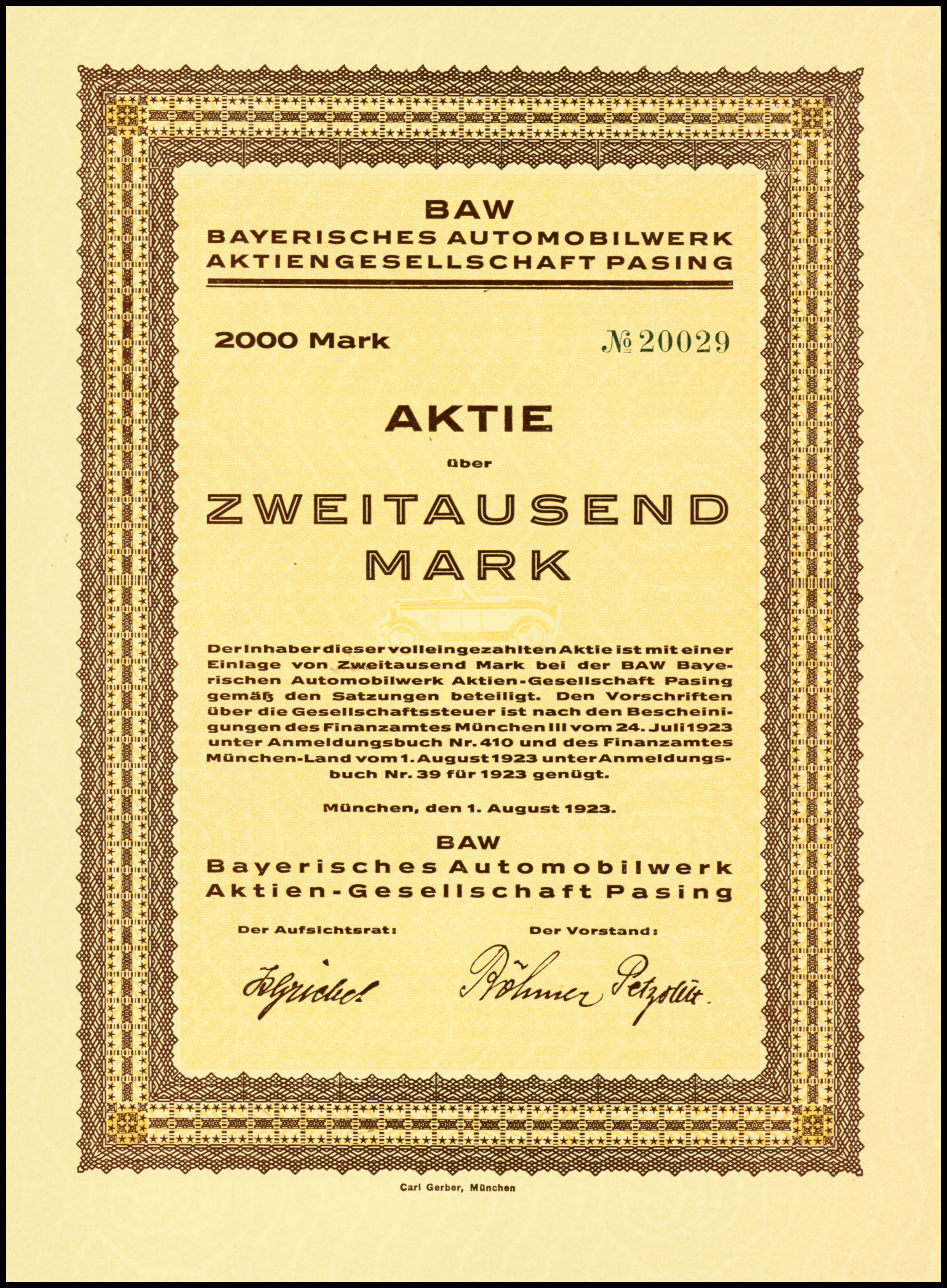 Share of the Bayerisches Automobilwerk AG, issued 1. August 1923